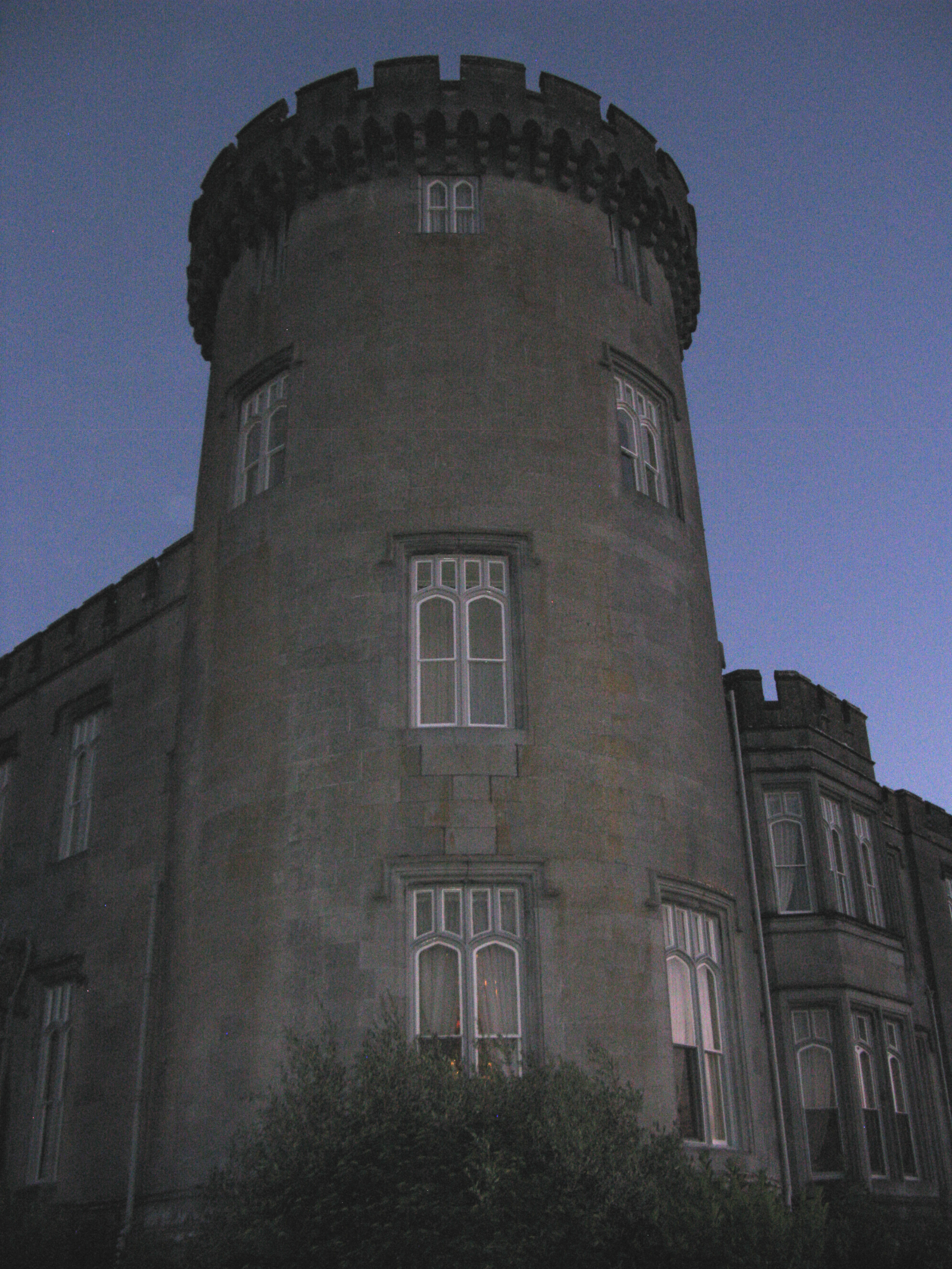 Crenellated tower.